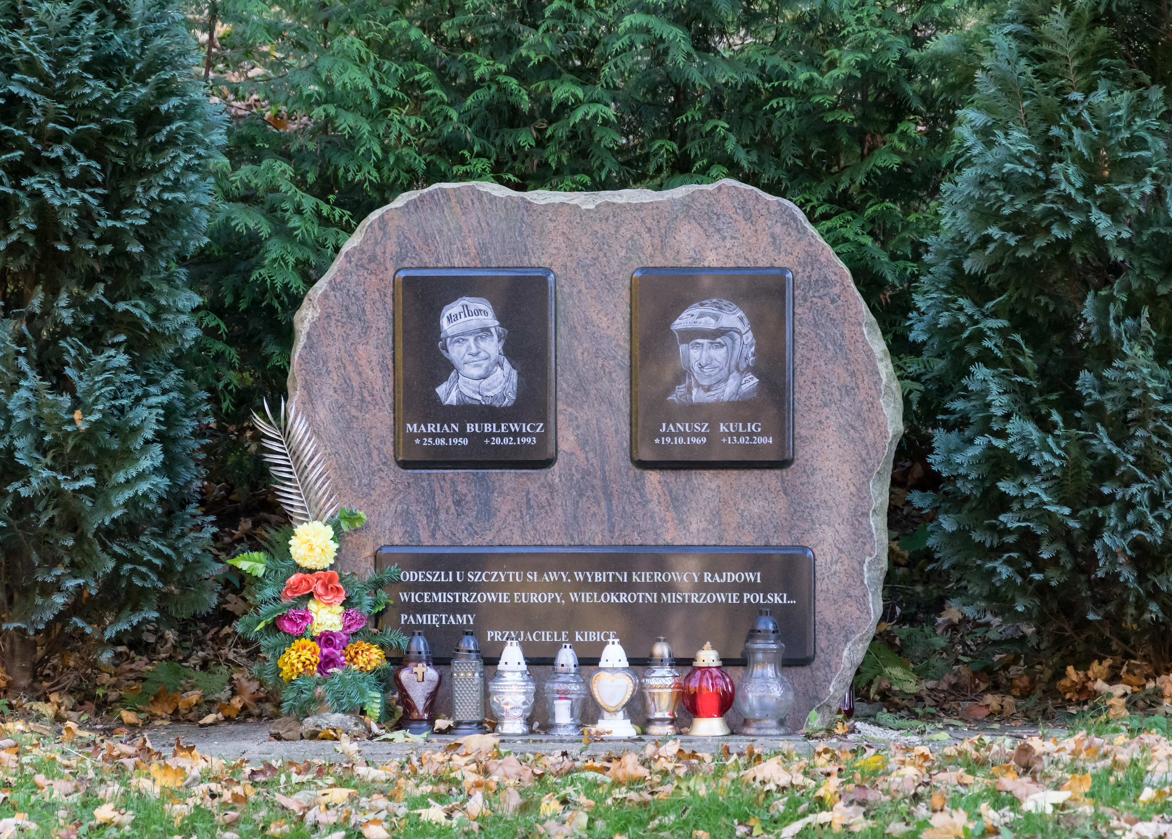 Marian Bublewicz and Janusz Kulig memorial in Walim